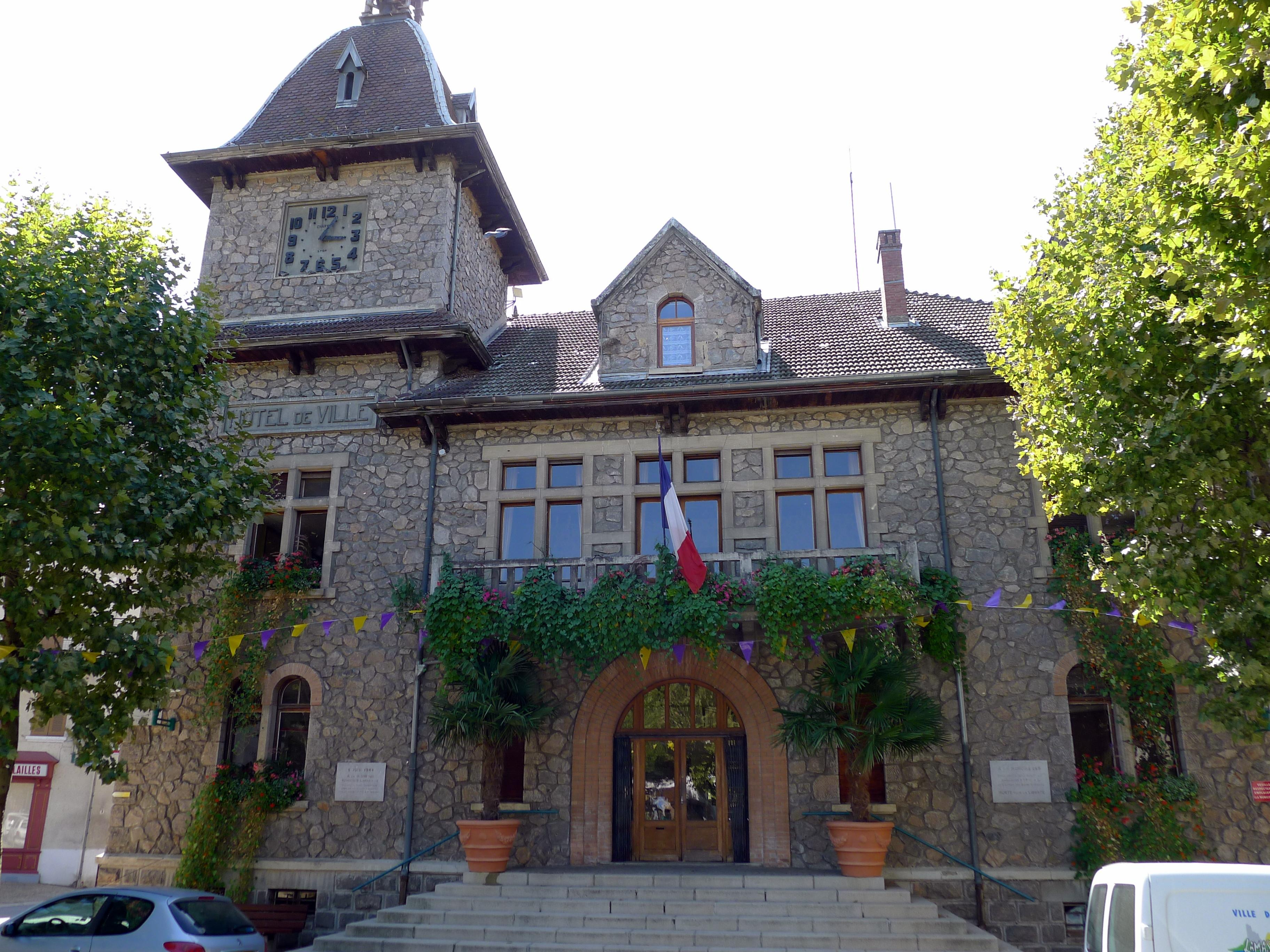 Town hall of Lamastre - Ardèche - France